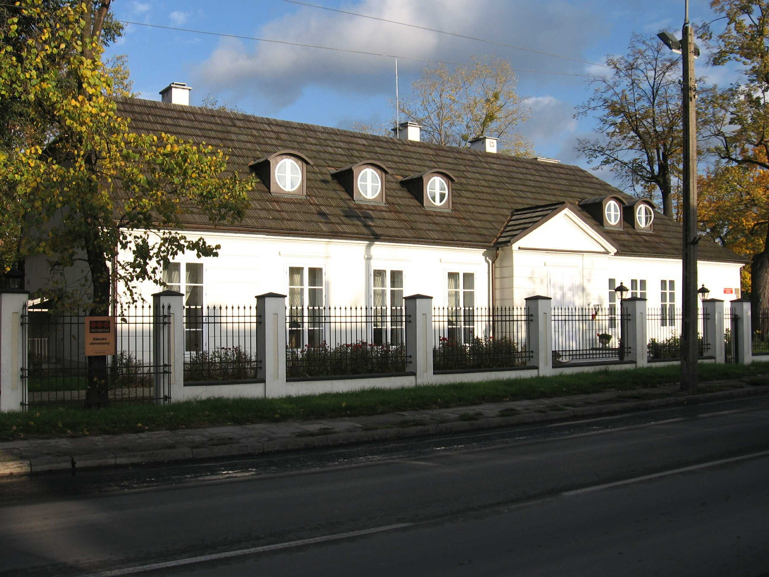 A historical residence of Mokronoski family in Grodzisk Mazowiecki (18th century), currently the site of public music school. 09.1955.